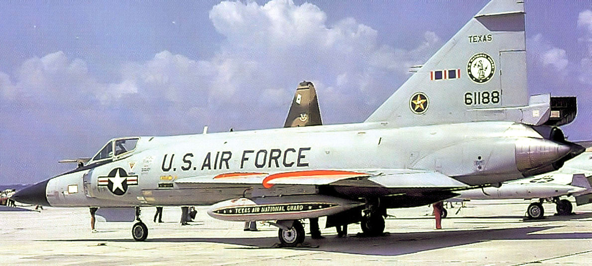 11th Fighter Interceptor Squadron Convair F-102A-65-CO Delta Dagger 56-1188. Aircraft was retired to MASDC as FJ0314 Aug 28, 1974. Later Converted to QF-102A and expended as a target drone.